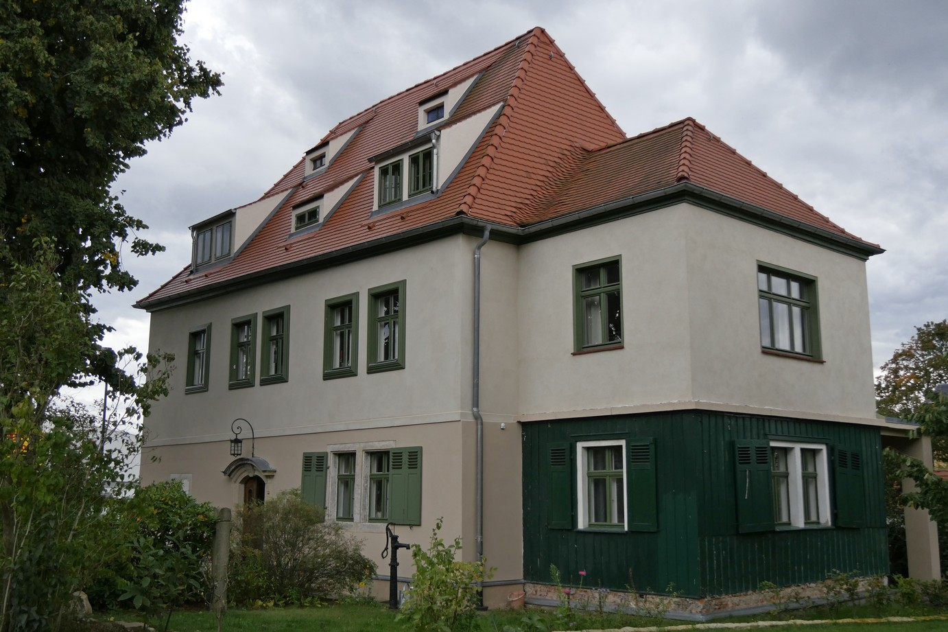 Kyauhaus Radebeul Nordseite 2016